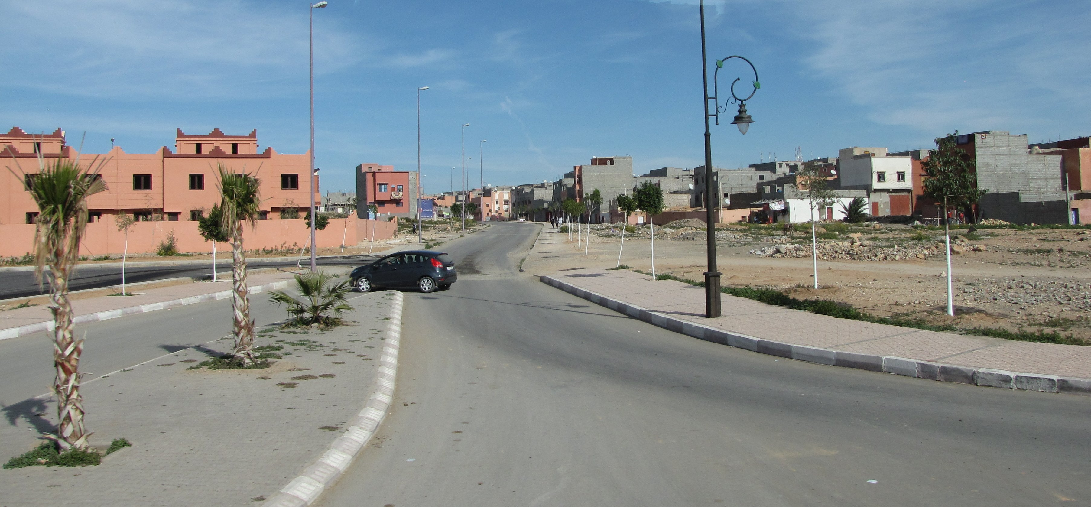 A view in Moroccan town Chichaoua in Chichaoua Province, Marrakech-Tensift-Al Haouz region.